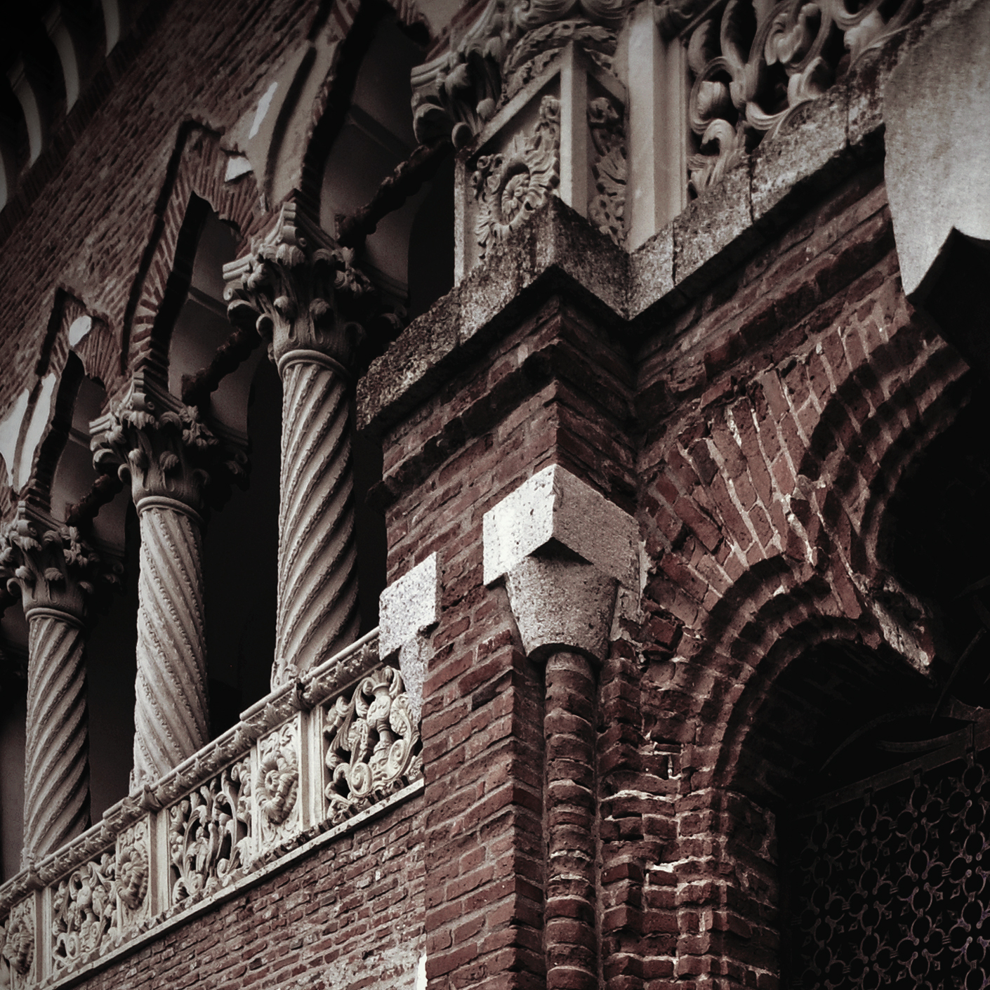 Mogosoaia Palace [built from 1702], near Bucharest, Romania with major restoration works [1912-1945] by architects Domenico Rupolo and G.M. Cantacuzino for Marta Bibescu